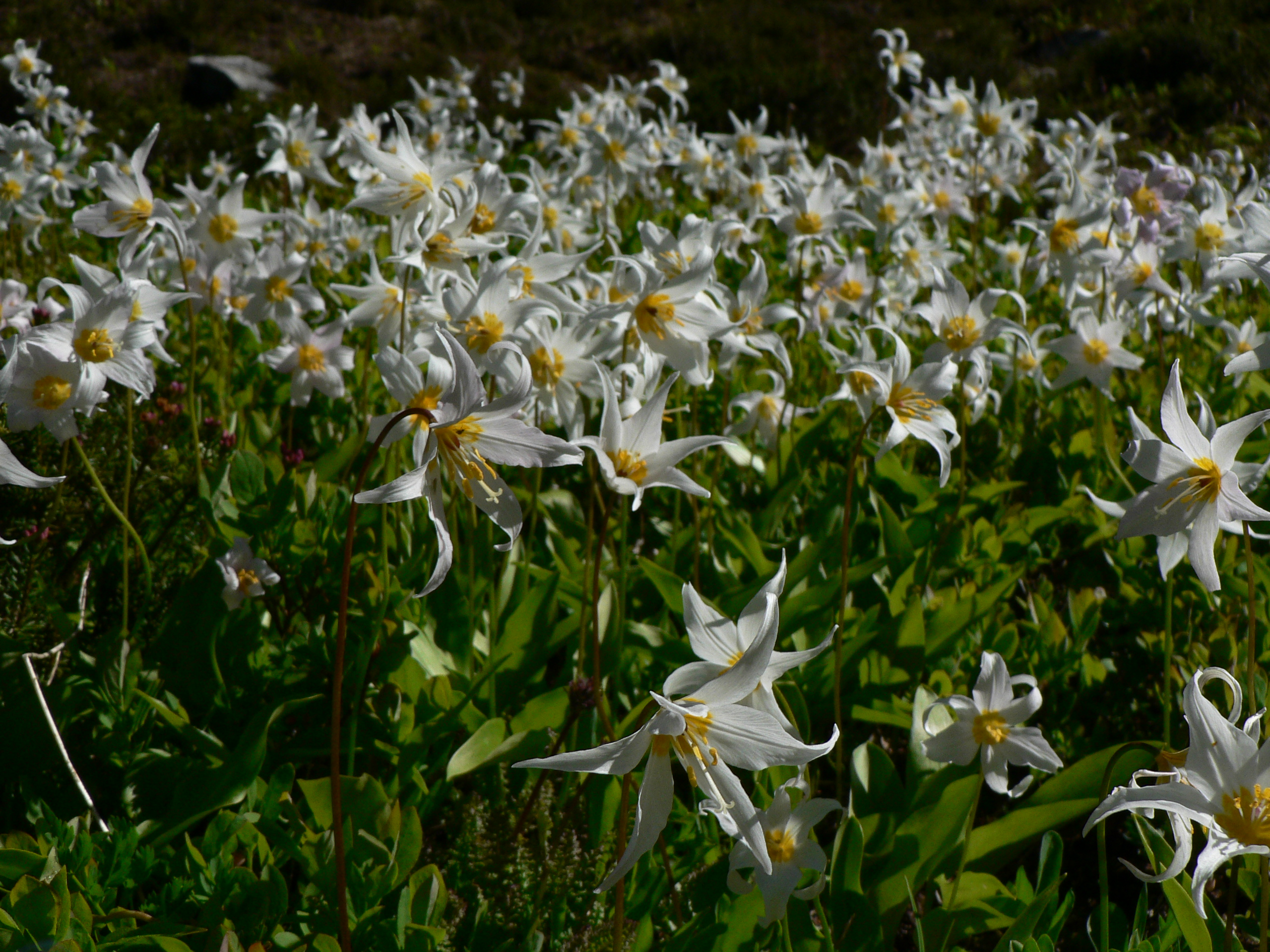 White Avalanche-lily